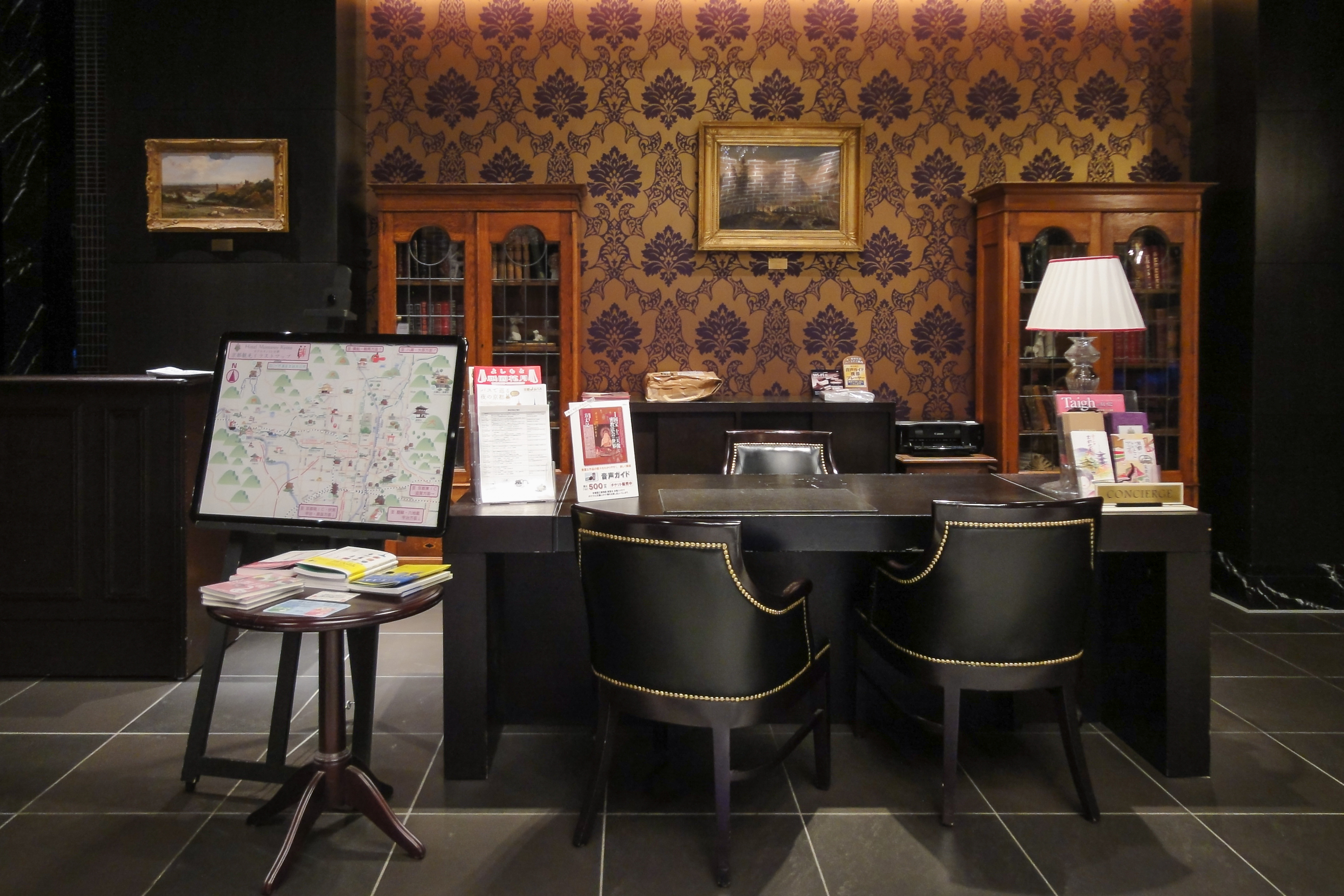 Photograph of the concierge desk on the 1st floor of Hotel Monterey Kyoto in Nakagyo-ku, Kyoto, Kyoto Prefecture, Japan.